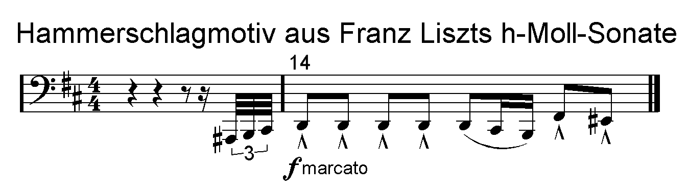 motive from the b-Minor-Sonata by Franz Liszt